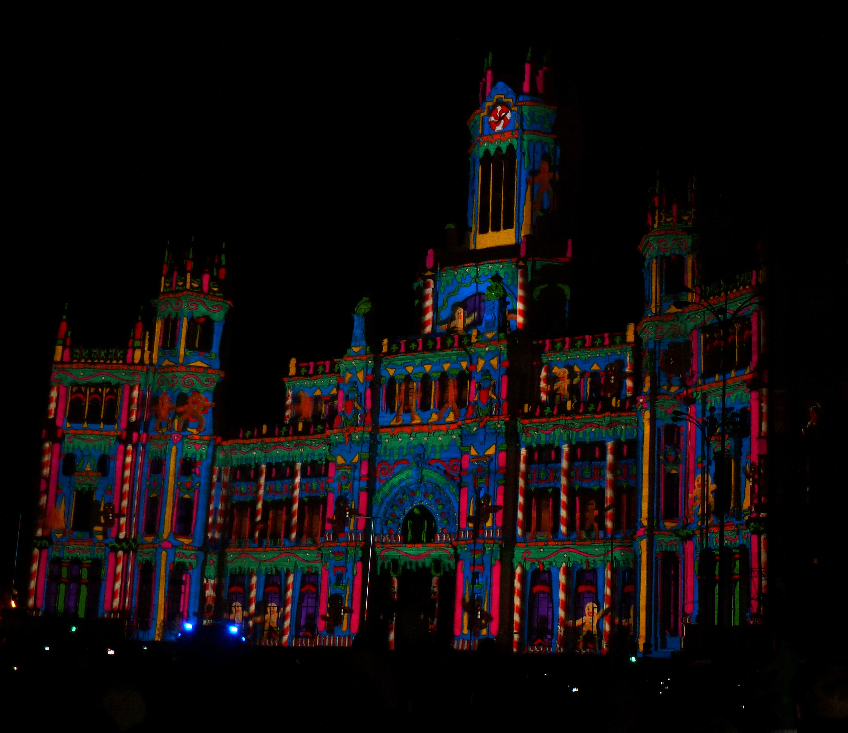 Special projection on the façade of "Palacio de Comunicaciones", Madrid, Spain, Christmas 2011.